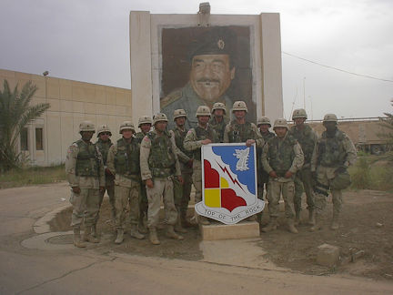 This is a picture of the 103rd MI BN leadership during Operation Iraqi Freedom I (OIF-I), 2002-2003.